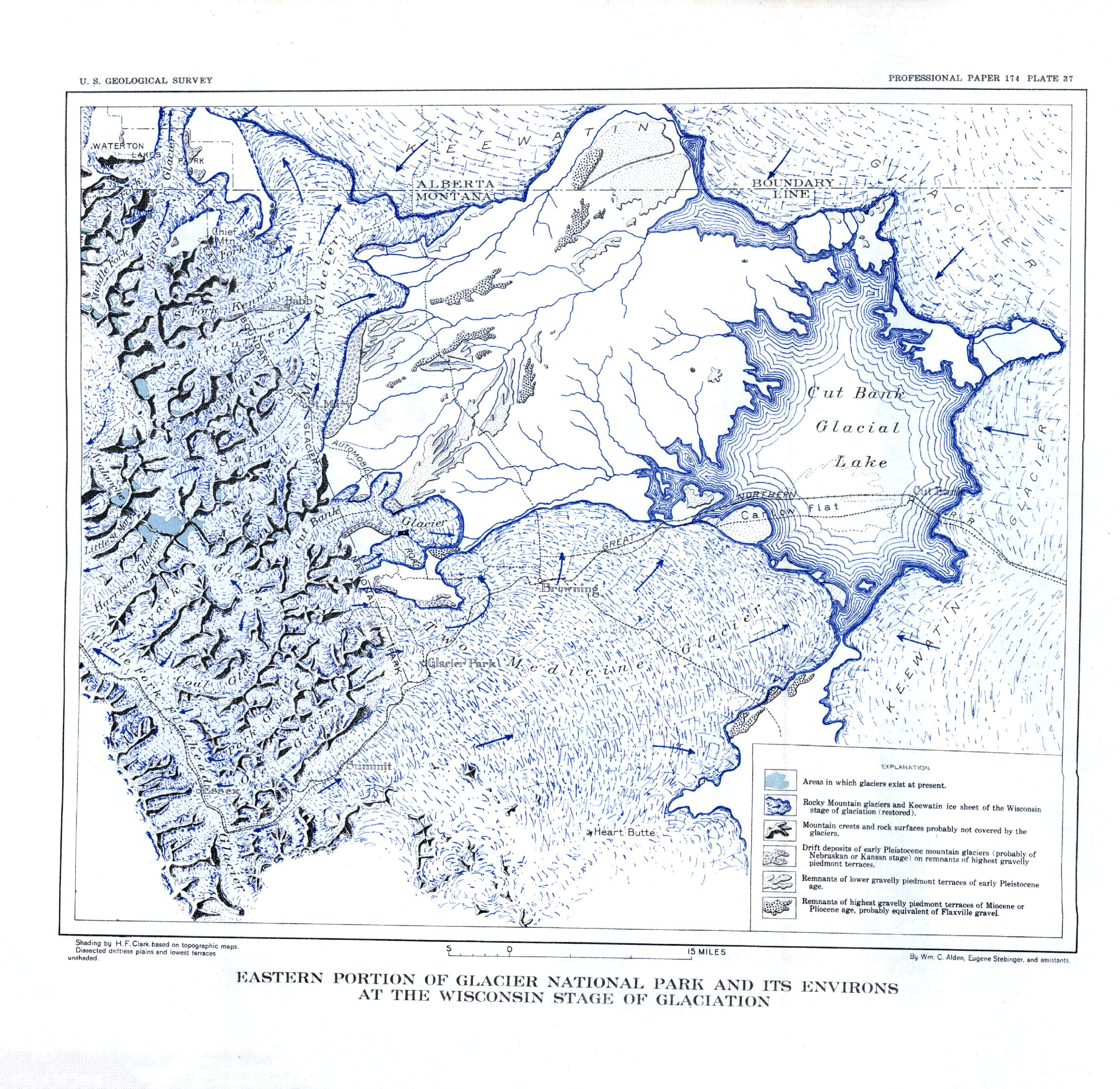 Eastern Portion of Glacier National Park (pg 104)